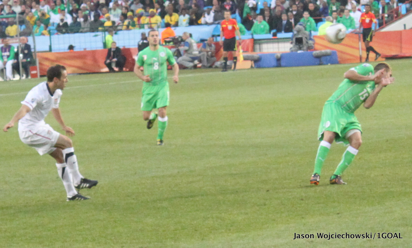 USA vs Algeria 2010 FIFA World Cup